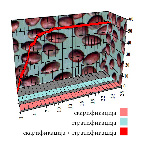 Cercis siliquastrum Dormancy-breaking treatments